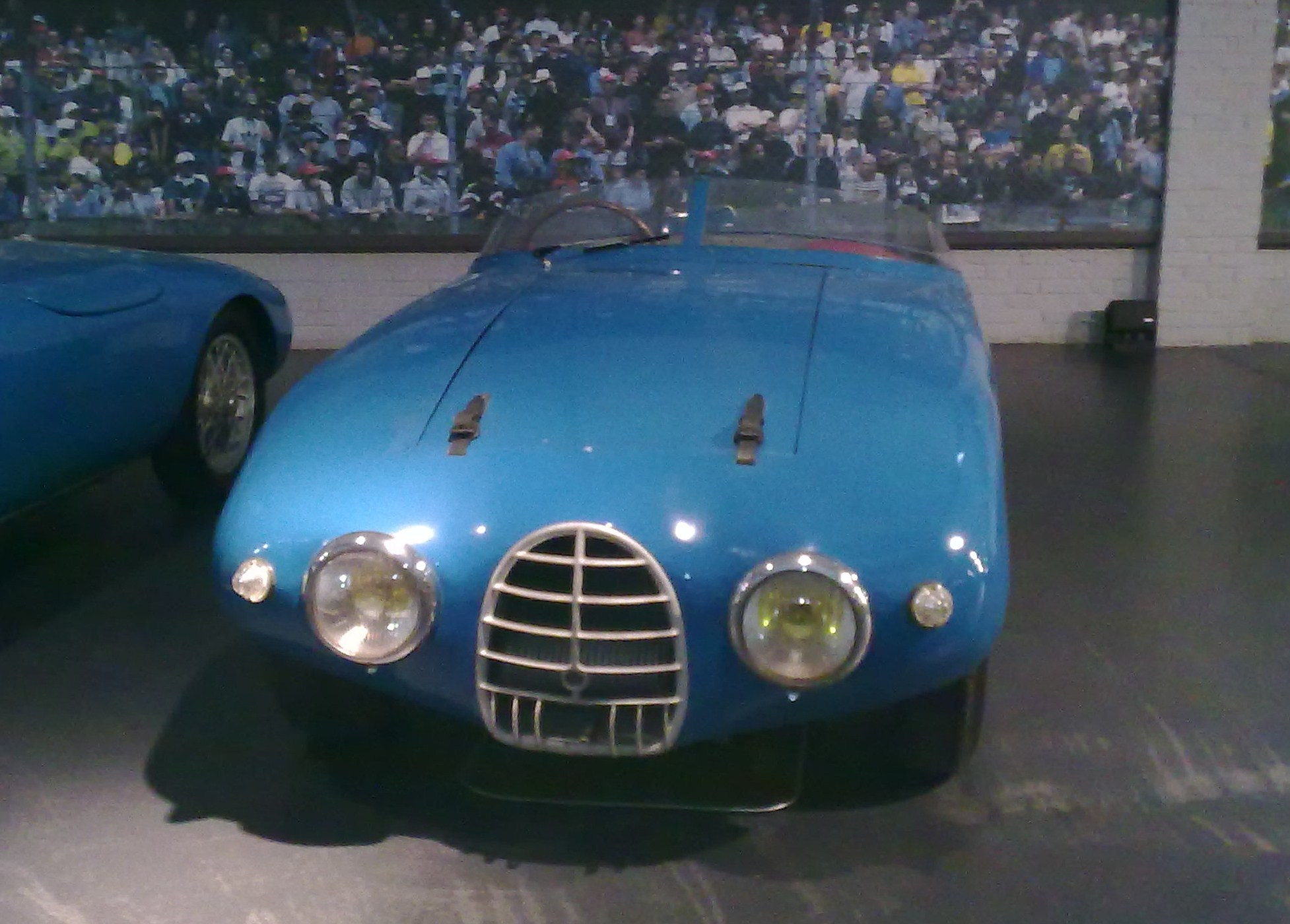 Gordini Bilplace Sport, type 17 S